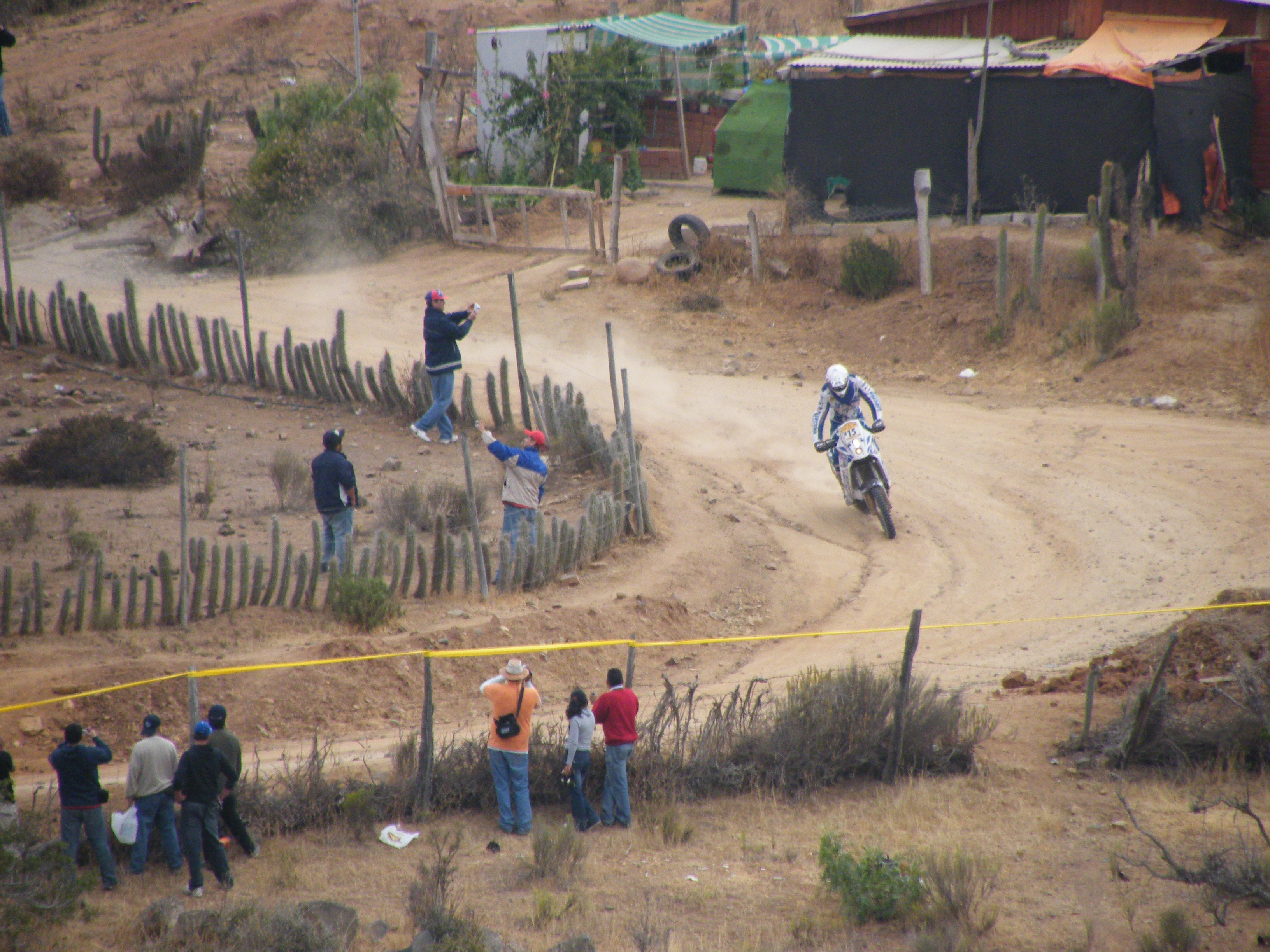 Rally Dakar 2009 en Chile